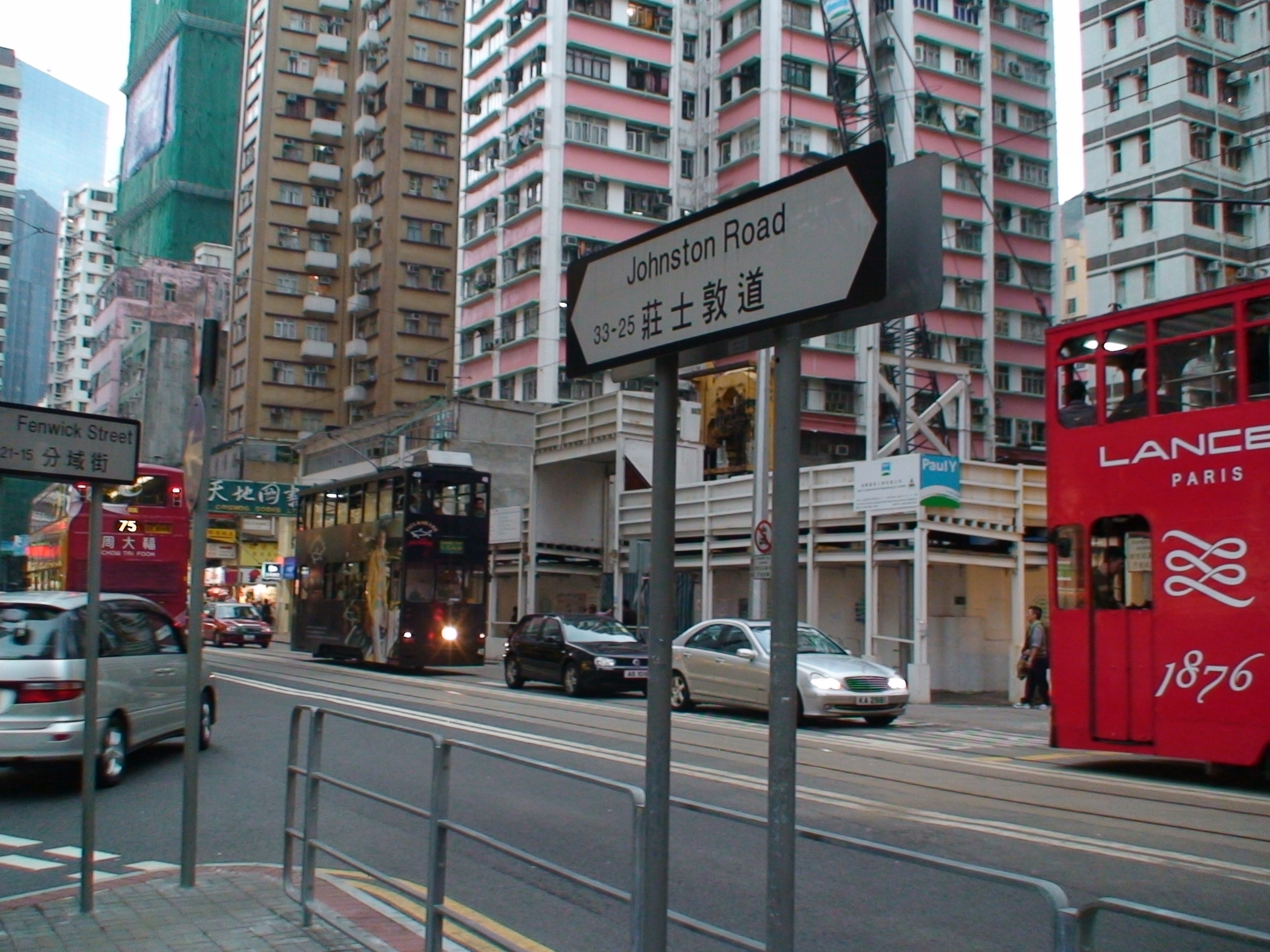 Johnston Road (莊士敦路) is the main road in Wan Chai, Hong Kong with a road plaque.